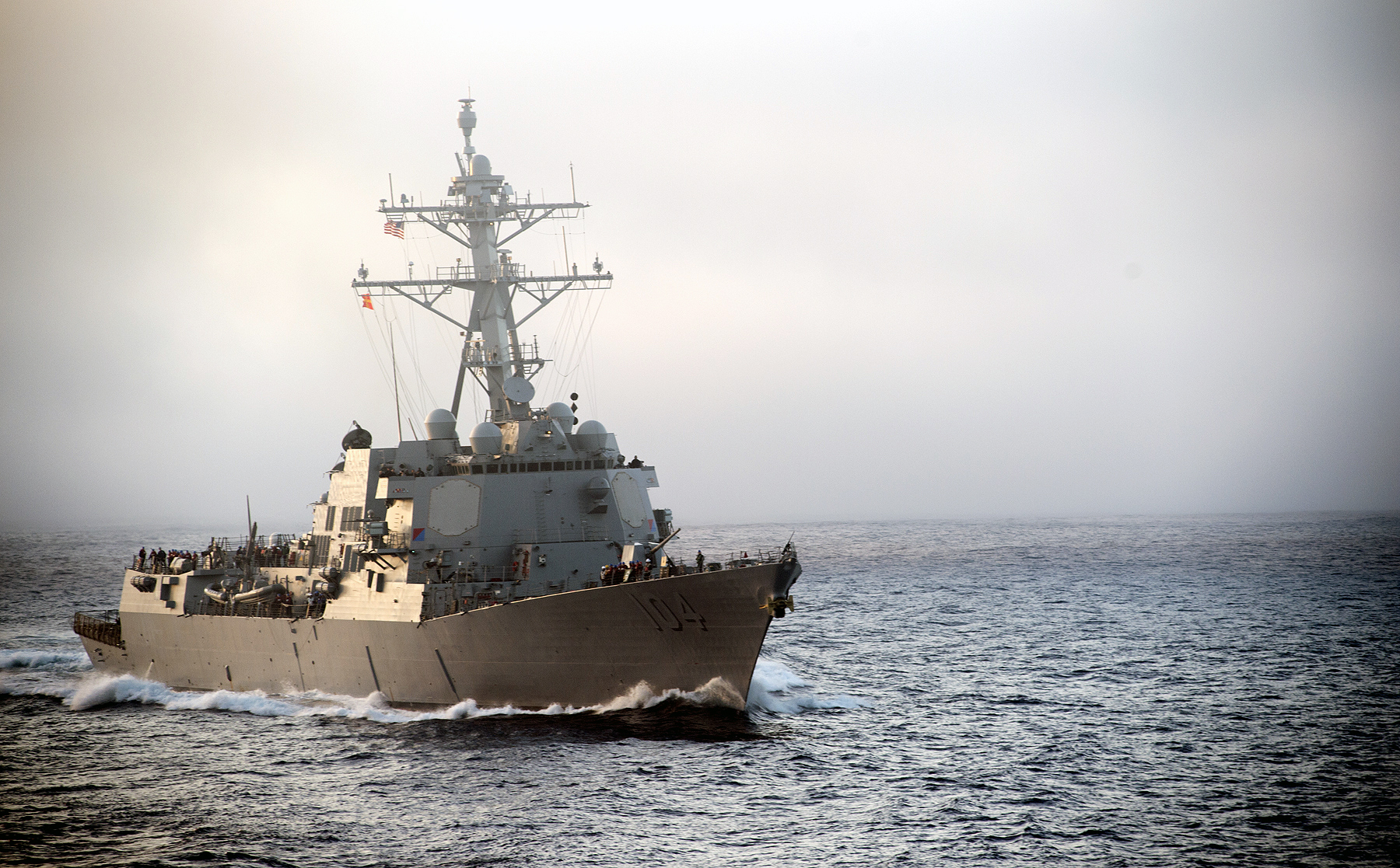 161108-N-FT178-054 PACIFIC OCEAN (Nov. 8, 2016) The Arleigh Burke-class guided-missile destroyer USS Sterett (DDG 104) transits the Pacific Ocean in preparation for a replenishment-at-sea. Sterett is underway with Carrier Strike Group (CSG) 1 conducting a Composite Training Unit Exercise in preparation for a future deployment. (U.S. Navy photo by Petty Officer 2nd Class Nathan K. Serpico/ Released)